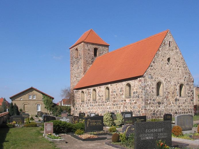 Stonechurch in Ahrensdorf, probably built at the end of the 14th / at the beginning of the15th century. On the left the parish hall.The village Ahrensdorf is a part of Ludwigsfelde, town in the district Teltow-Fläming, state Brandenburg, Germany.